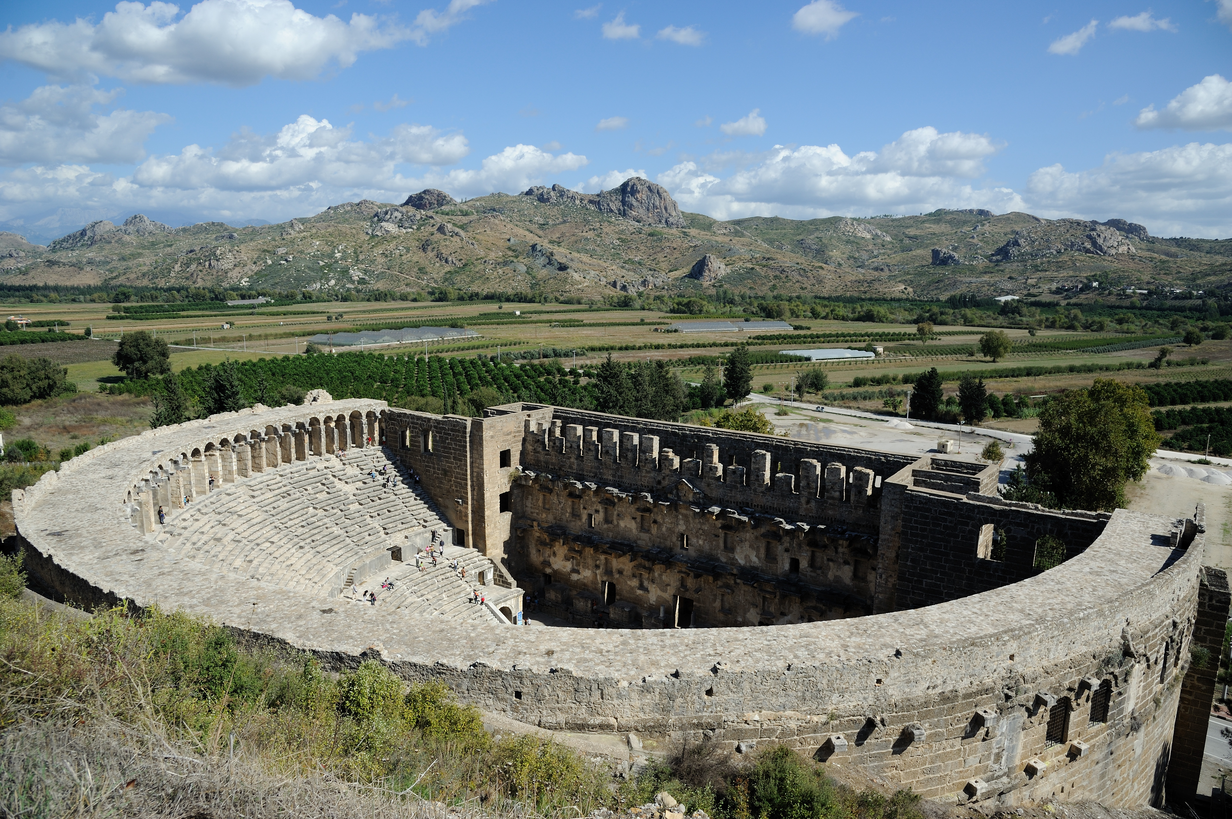 Aspen dos, present-day Turkey, is known for having the best-preserved theatre of antiquity. With a diametre of 96 metres (315 ft), the theatre provided seating for 7,000. The theatre was built in 155 AD by the Greek architect Zenon, a native of the city, during the rule of Marcus Aurelius. It was periodically repaired by the Seljuqs, who used it as a caravansary, and in the 13th century the stage building was converted into a palace by the Seljuqs of Rum. Technically the structure is a theatre not an amphitheatre, the latter being full round or oval shaped.